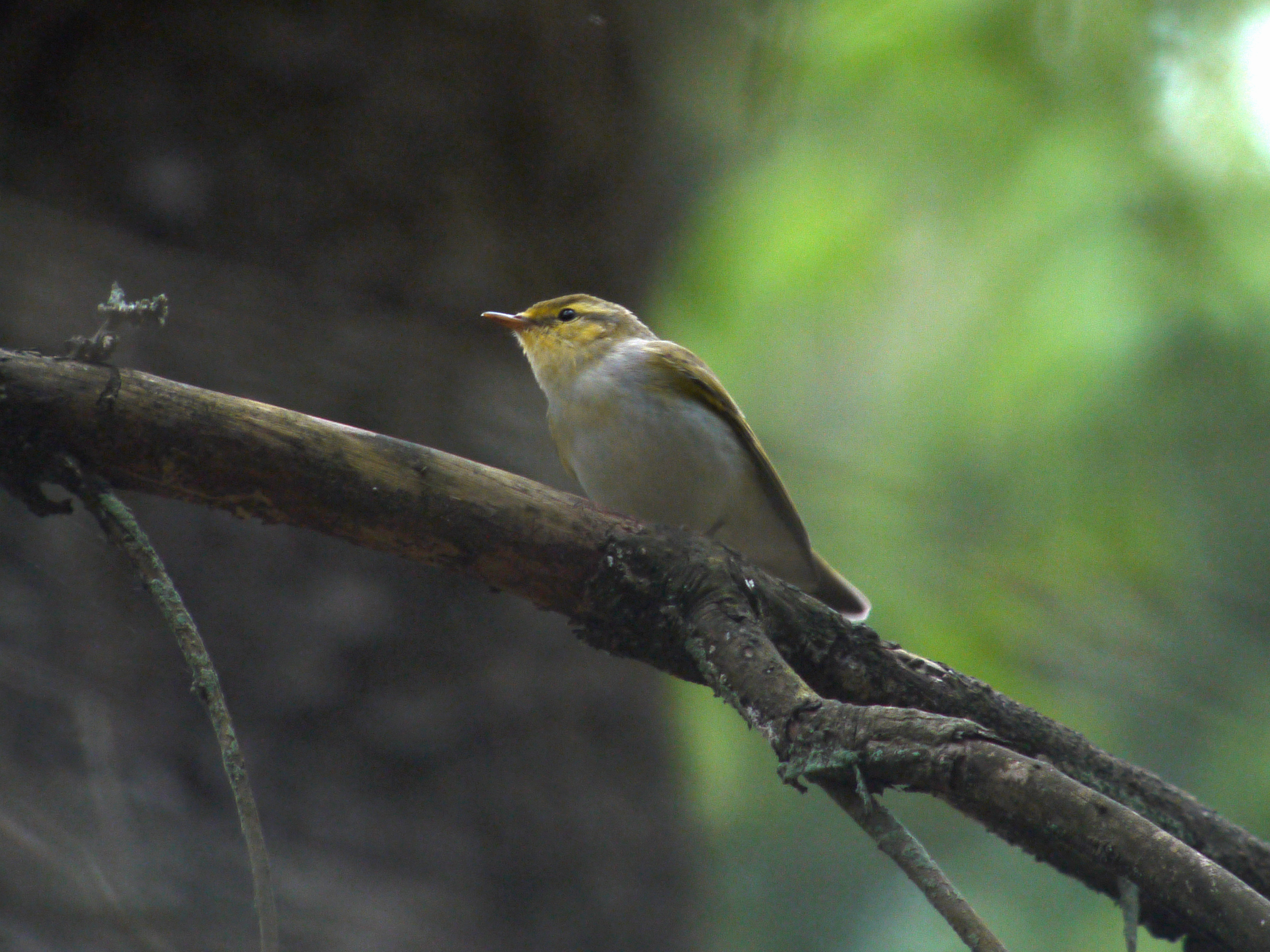 Digiscoping with Swarovski ATM 80 HD 30 X, Panasonic DMC-GF1 + Lumix G 20mm F1.7 ASPH (Adapter DCB)